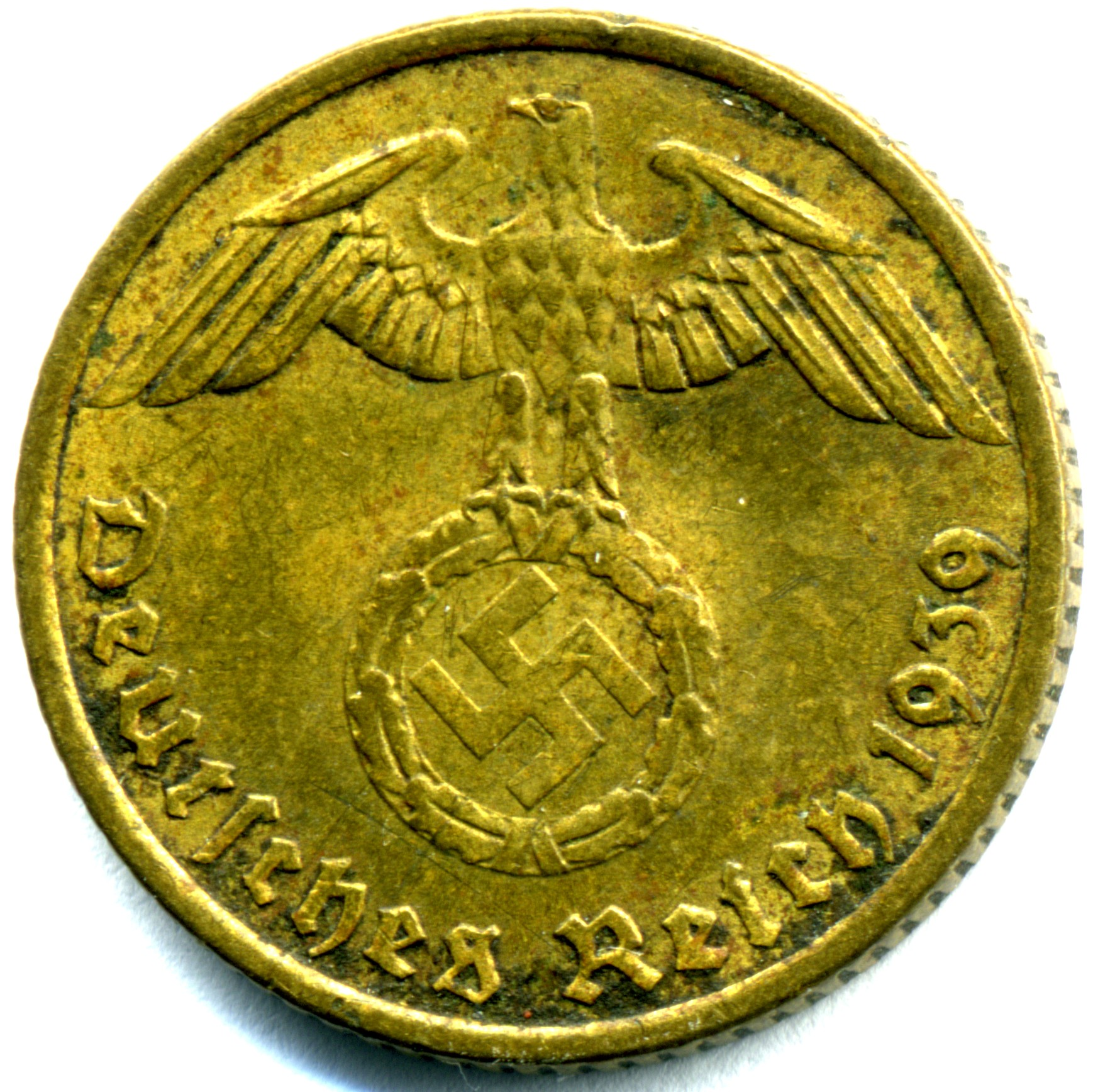 5 Reichspfenning coin 1939a Obverse with date and swastika emblem